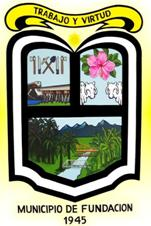 logo of town